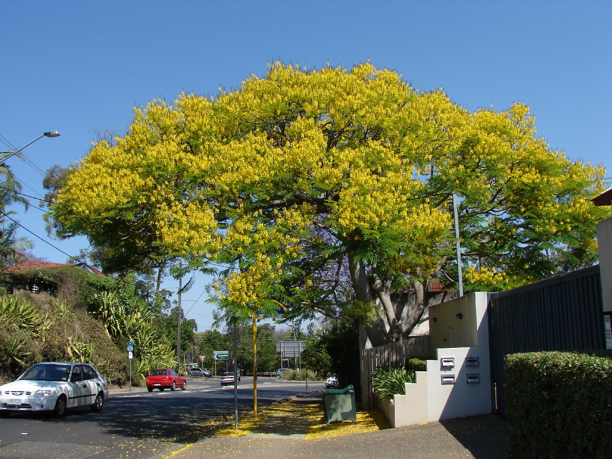 She is in full bloom again, and it is impossible not to stop here to admire its beauty. There is even a bus stop (A375) under the tree for you :-) (Paddington suburb of Brisbane) Have to say, it is unusual shape for Guapuruvu, as usual it is tall and straight, as on the photo below. Info about this tree Guapuruvu (Portuguese common name) is a magnificent, fast growing ornamental tall tree from tropical forests zones of the American Atlantic coast. Botanical name: Schizolobium parahyba Fabaceae / Caesalpiniaceae family (There is Parahyba River in Brazil) Other common names: Brazilian fern tree, Tower tree, Guapiruvu, Ficheira, Guanacaxtle It is deciduous. Flowers come first early spring, then fern-like leaves, Click here to see all my photos of this beautiful tree